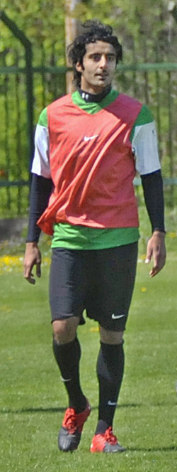 Adnan Ahmed football player.